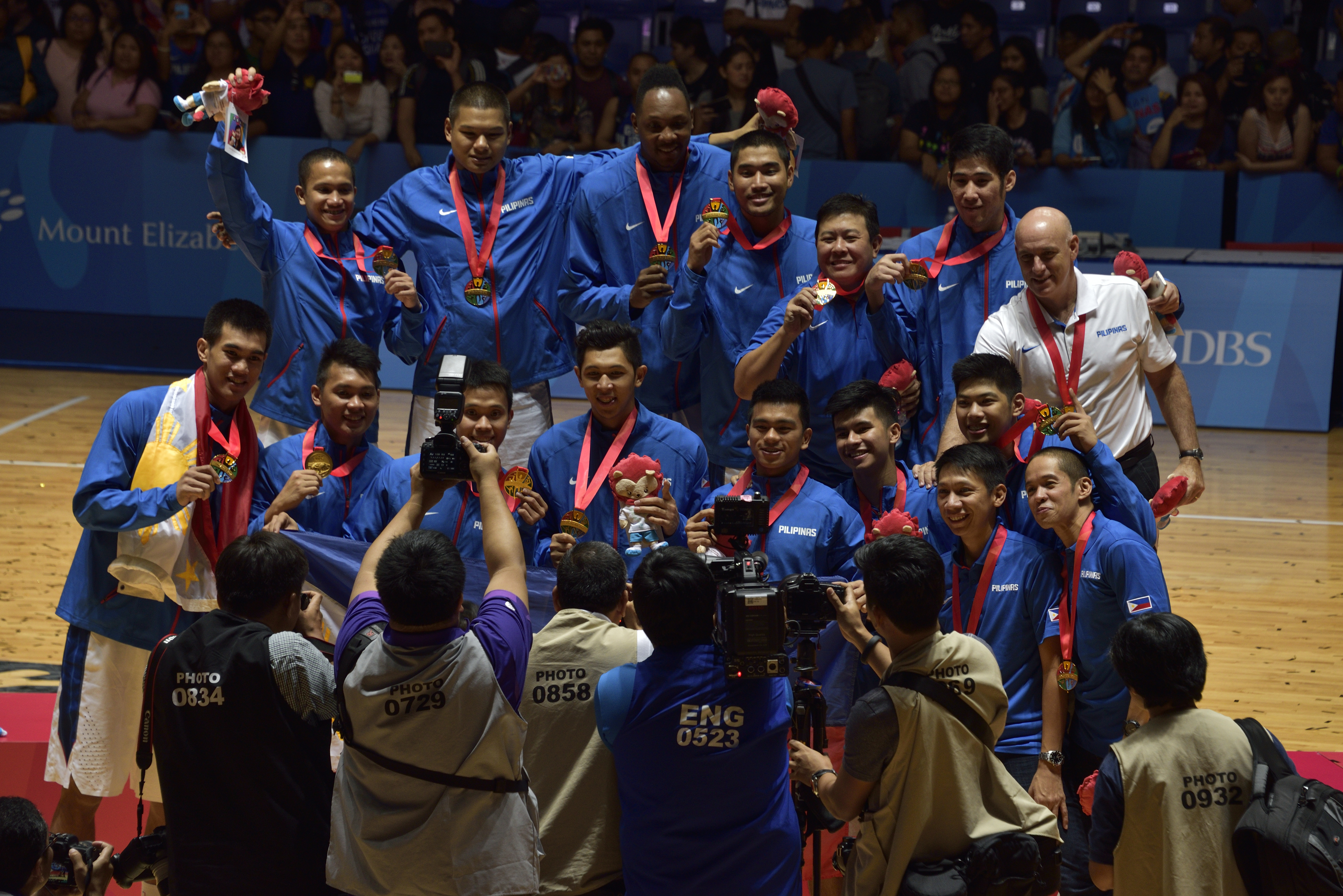 Group photo of the Philippine men's national basketball team at the 2015 Southeast Asian Games; Gold medalists.